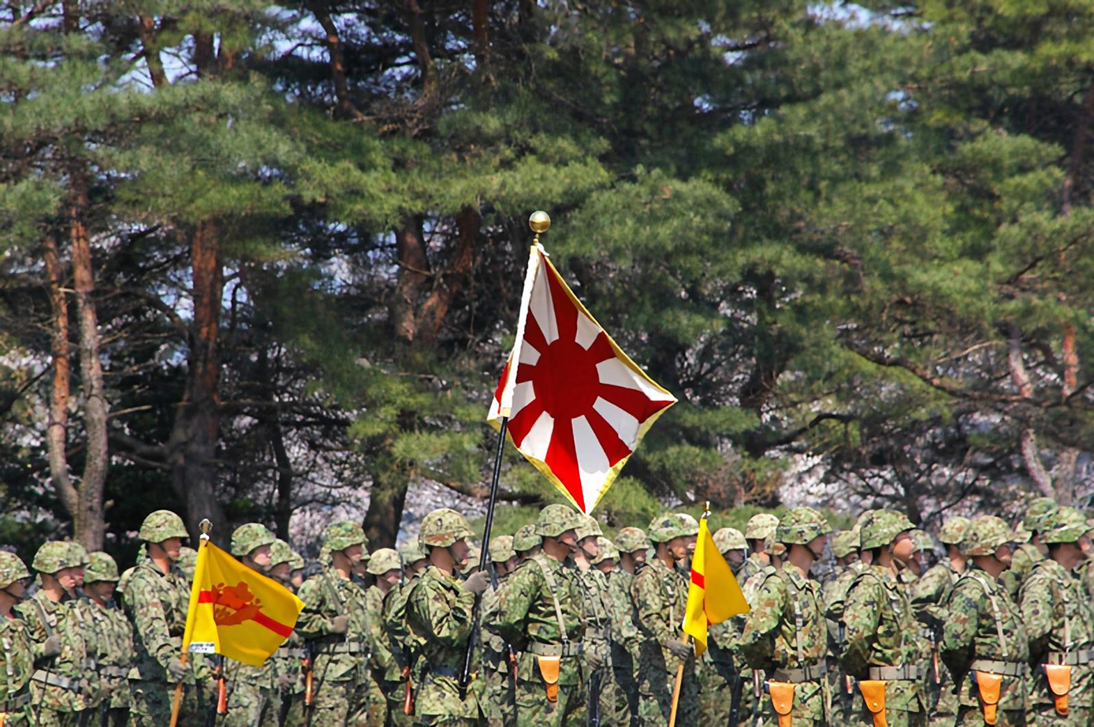 Taken by Los688,8-Apr-2007,JGSDF Camp-Utsunomiya commemorative event. Flag of Japan Self-Defense Forces, 12th Br..PD-self.